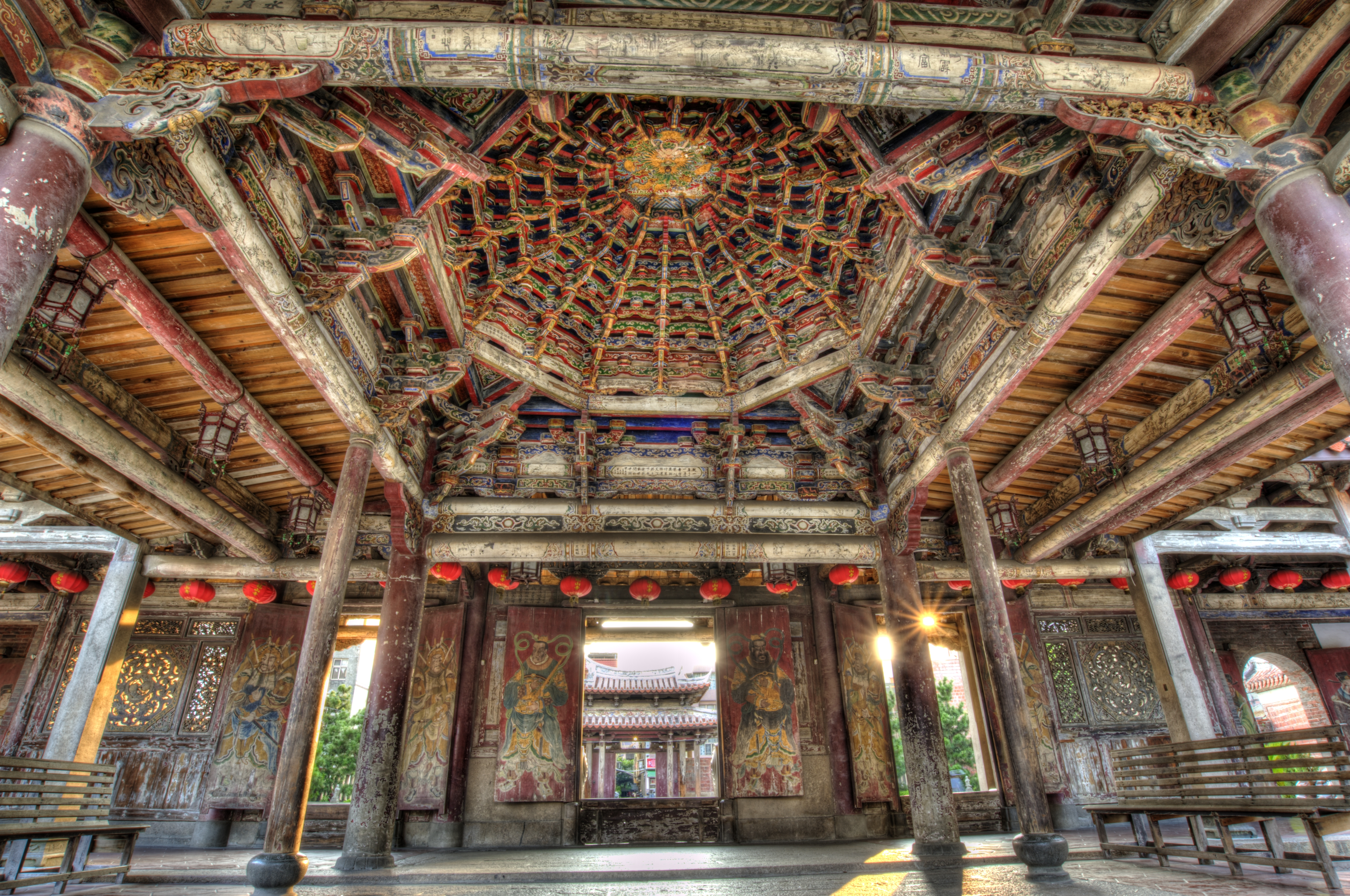 Caisson ceiling at Longsang Temple in Lugang, Taiwan